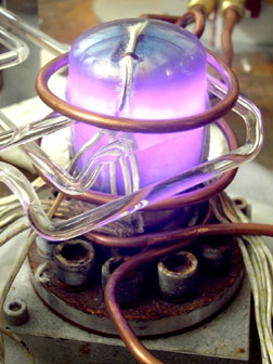 Time lapse photograph of the heater head of a Stirling radioisotope generator undergoing lifetime assessment. Induction heating coils maintain a 650°C (1200°F) temperature. The pictured quartz glass probes are connected to an extensometer that measures creep strain.